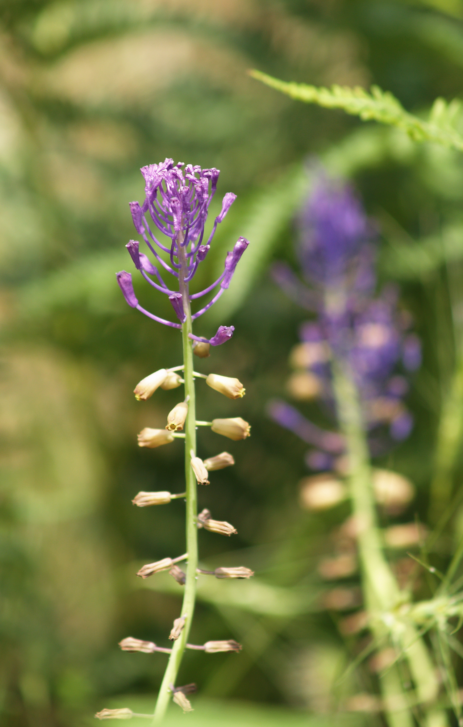 Grape hyacinth (Muscari comosum), Thasos, Greece